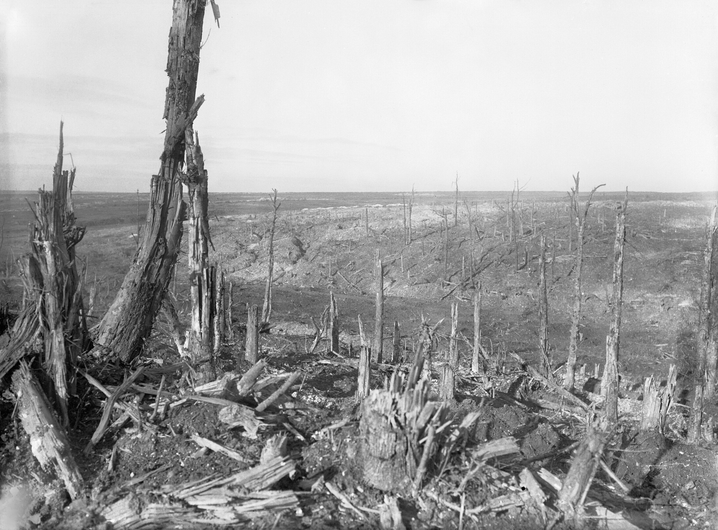 General view of the battlefield of Beaumont Hamel showing the blasted land